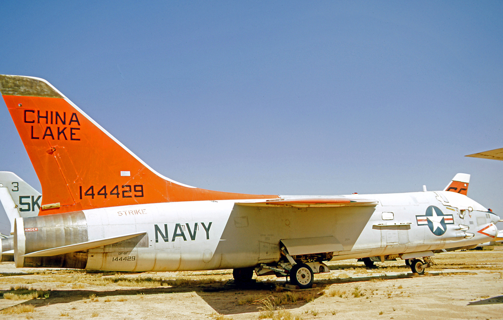 A retired U.S. Navy Vought DF-8F Crusader (BuNo 144429) at the MASDC at Davis-Monthan Air Force Base, 1971.